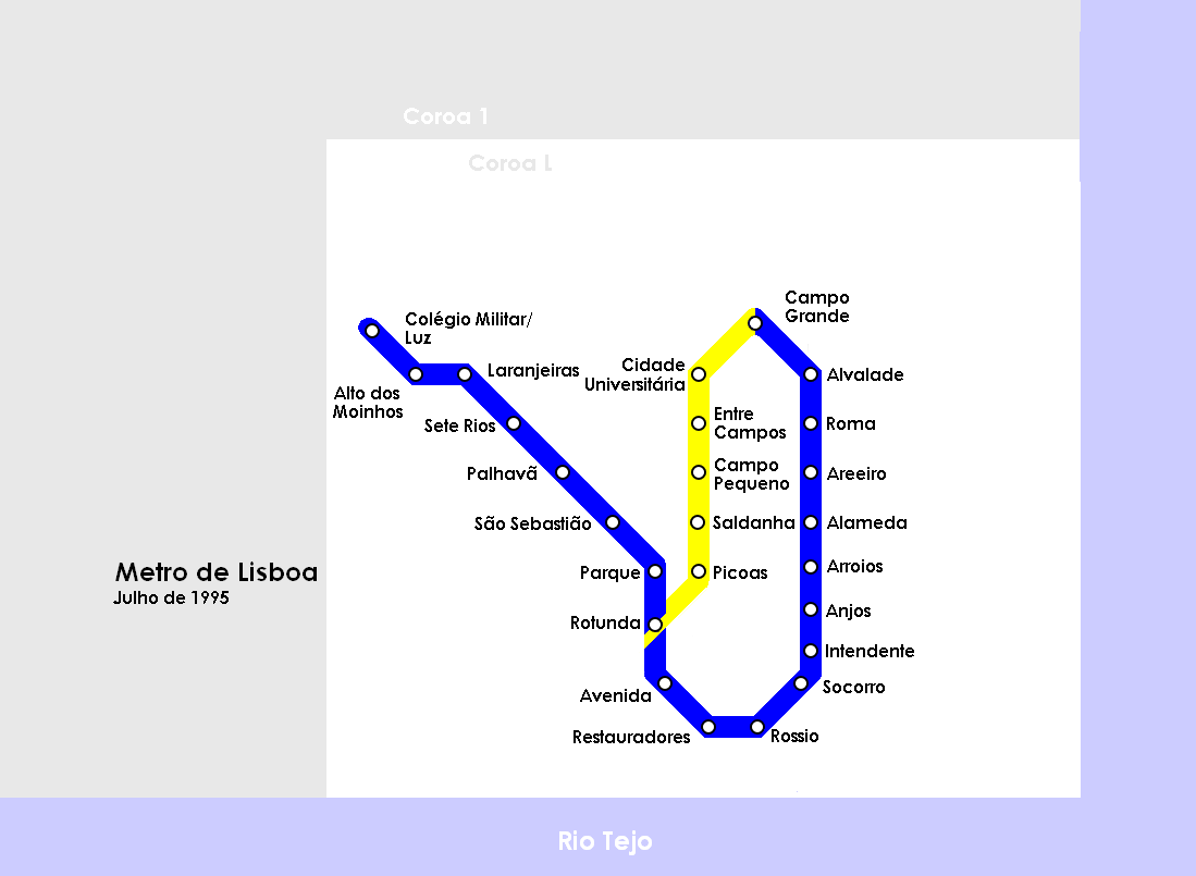 Map of Lisbon Metro in July 1995